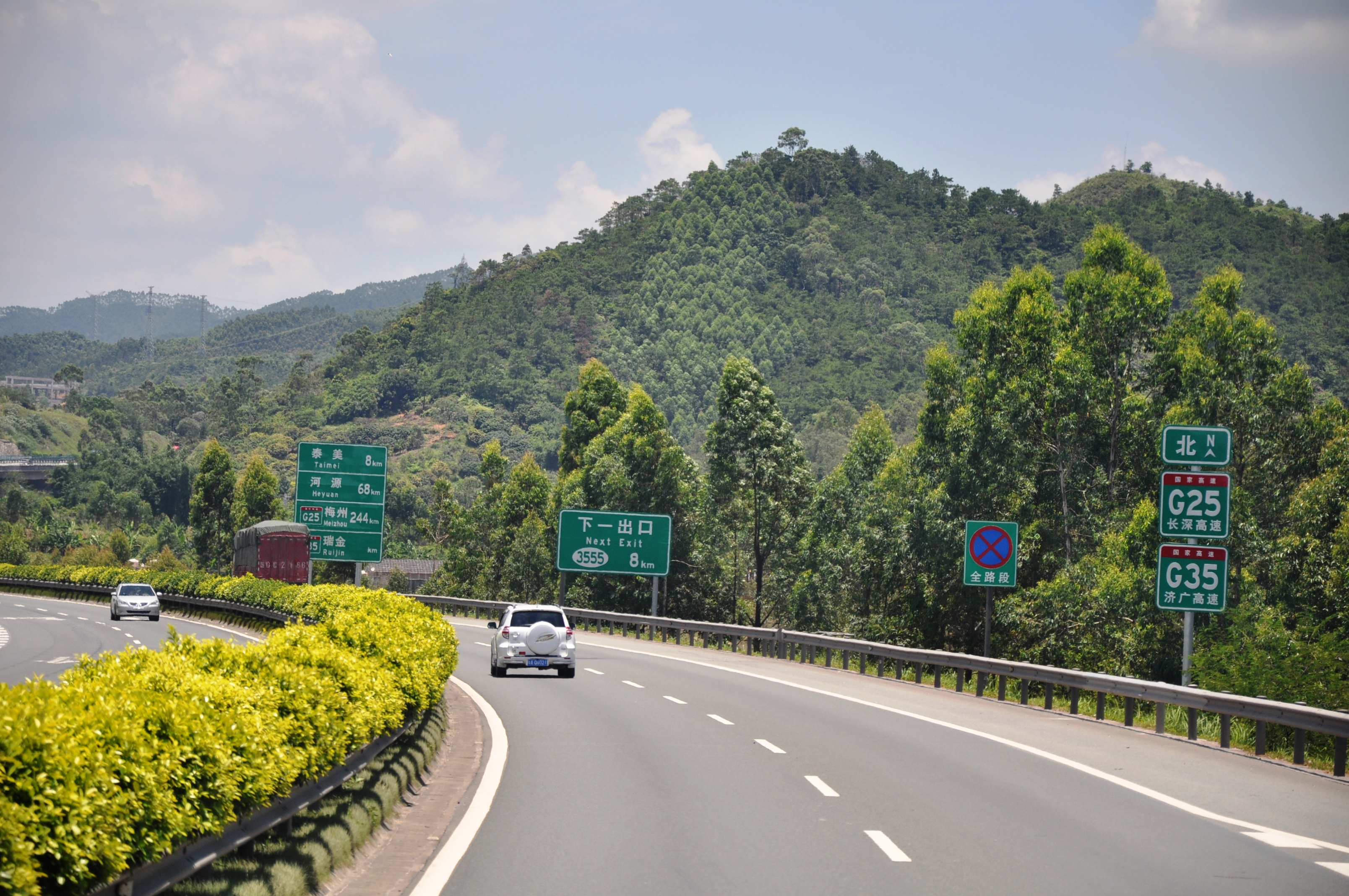 Huihe Expwy